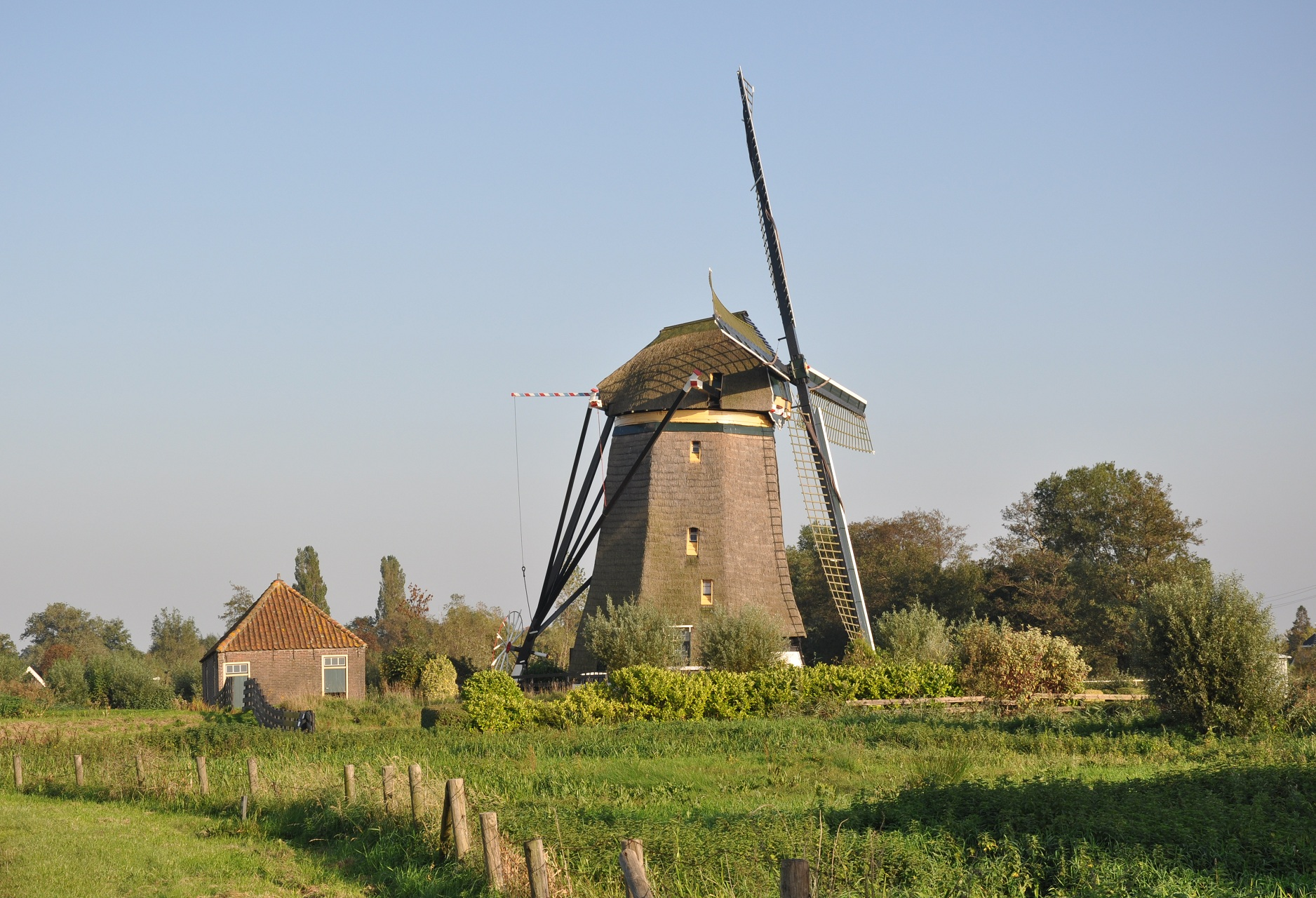 The "Rietveldse molen" (windmill of Rietveld) near Hazerswoude, province of South-Holland, Netherlands.